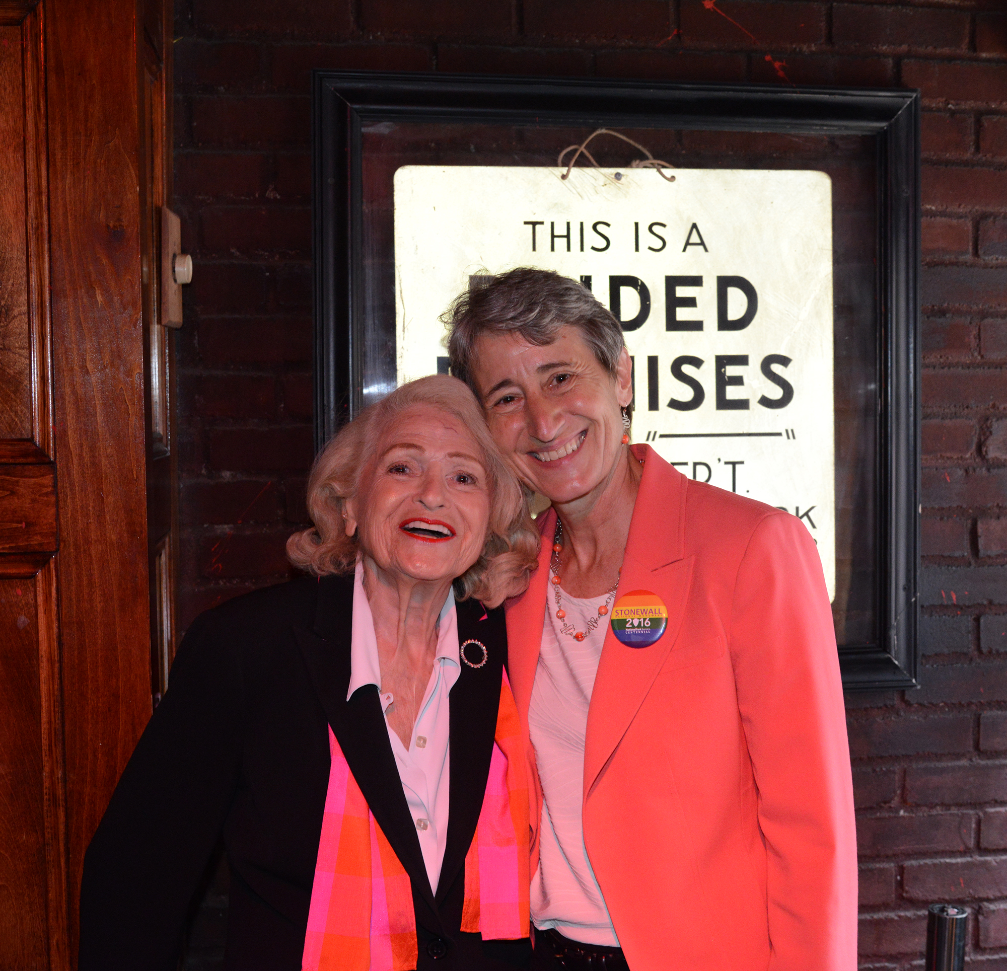 Edie Windsor and Secretary Jewell